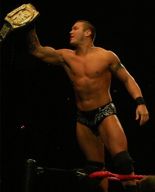 Randy Orton @ Sydney, Australia 'RAW' house show on the 9th of November '07